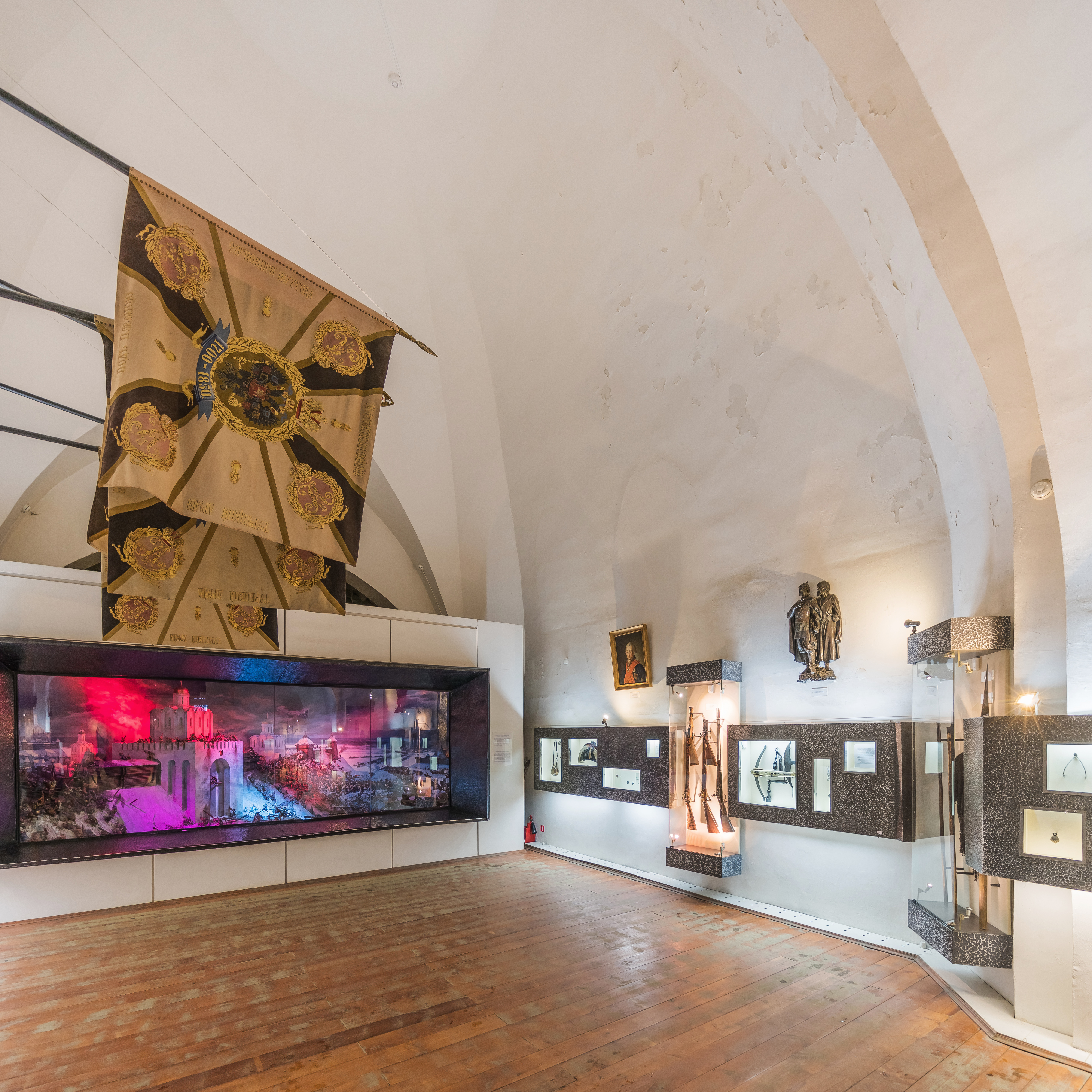 Interior of the Golden Gate in Vladimir, Russia